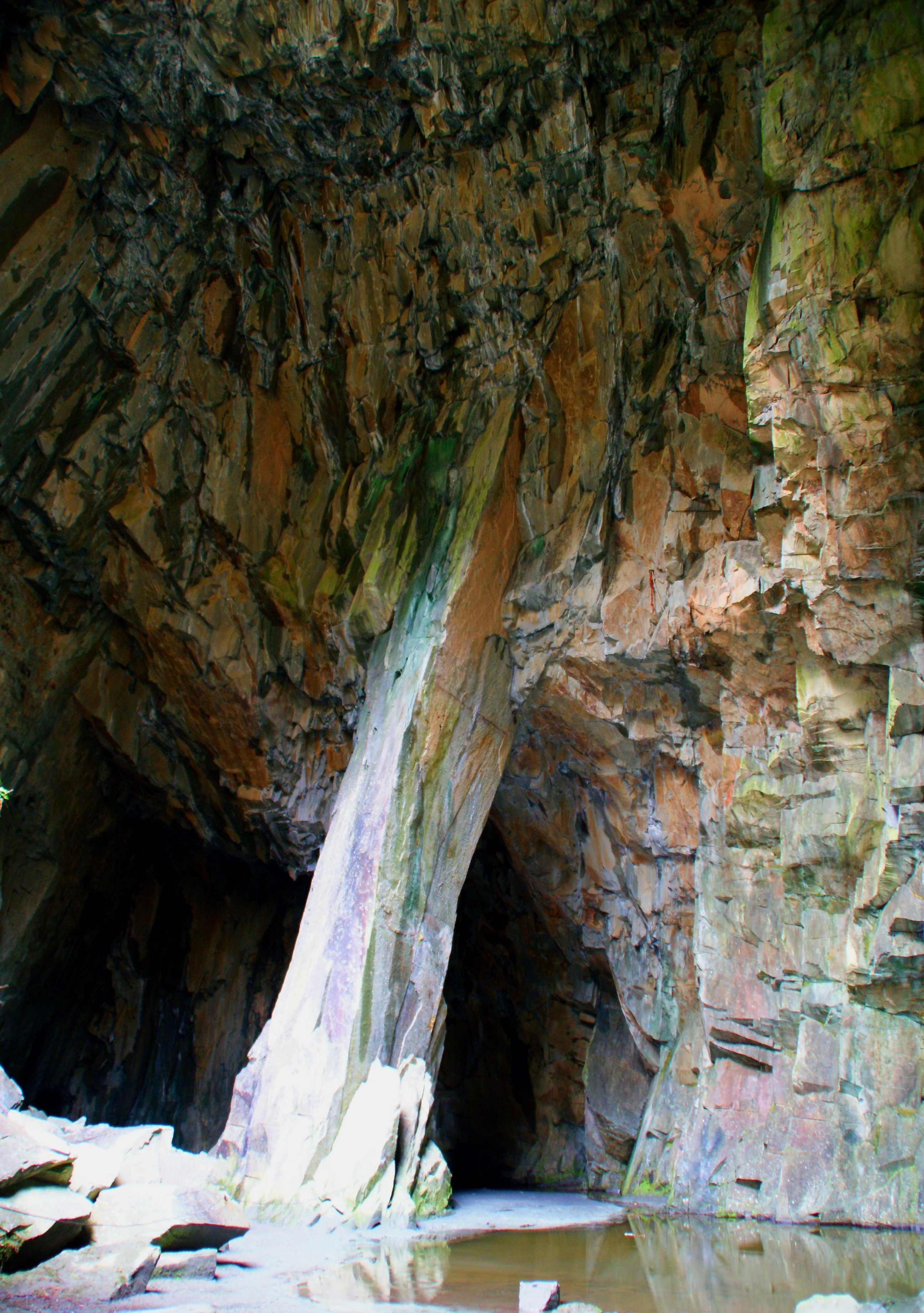 Cathedral quarries. The pillar was cleverly left by the miners to keep the roof up.